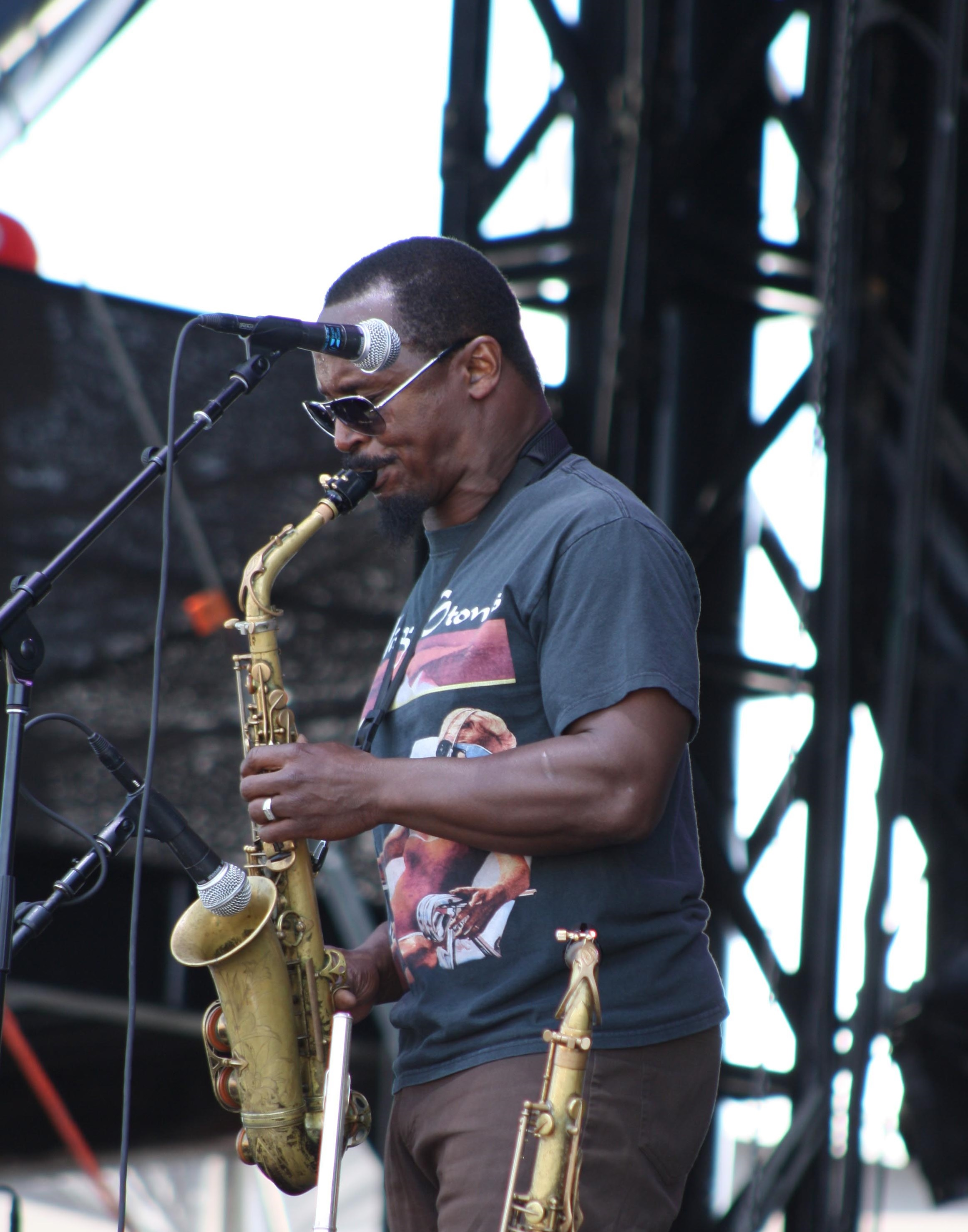 Karl Denson performing with the Greyboy Allstars at the Hangout Music Festival in 2012